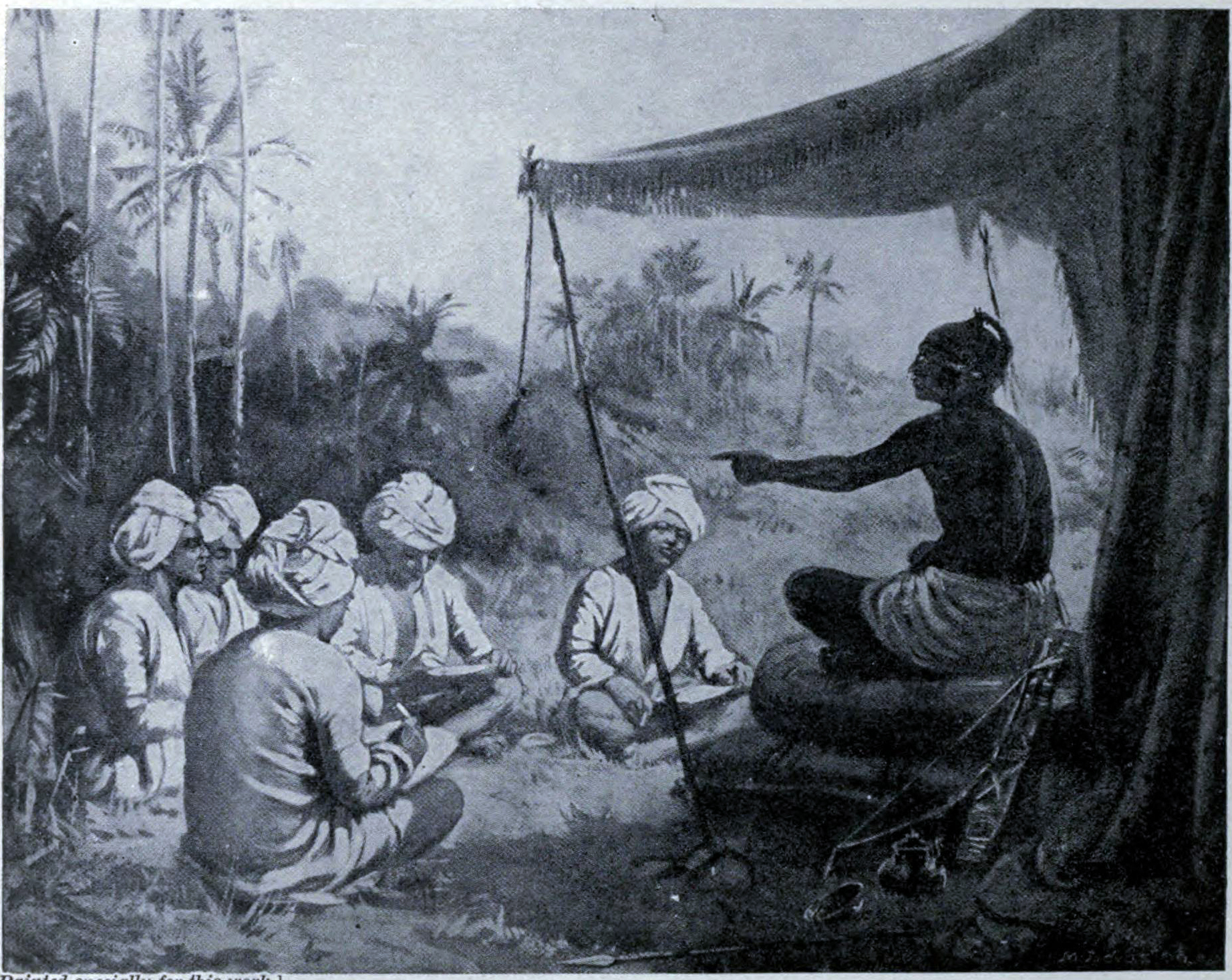 Kulothunga Chola instructs the surveyors A.D. 1086. From Hutchinson's story of the nations, containing the Egyptians, the Chinese, India, the Babylonian nation, the Hittites, the Assyrians, the Phoenicians and the Carthaginians, the Phrygians, the Lydians, and other nations of Asia Minor.